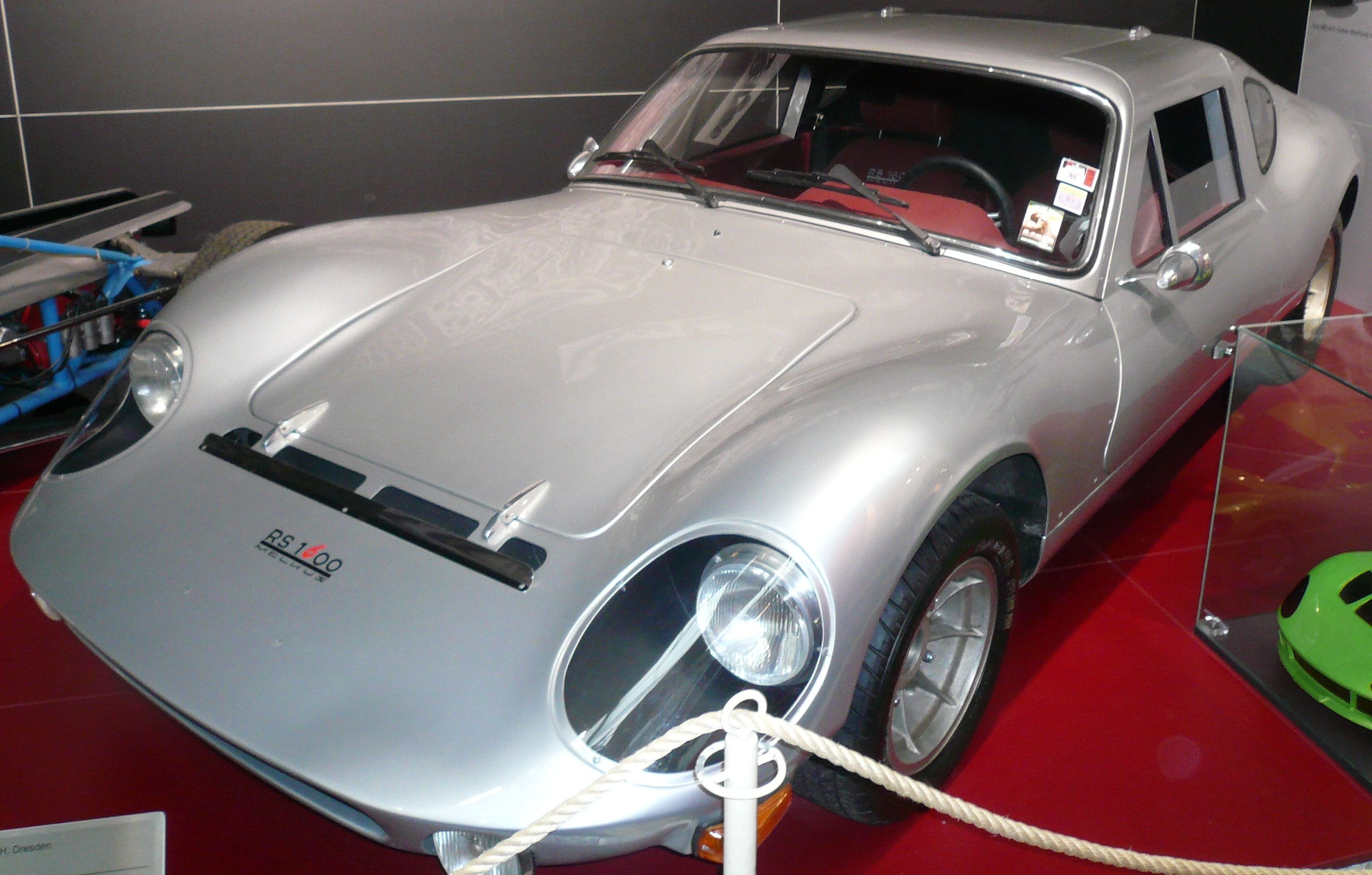 Melkus RS 1600 (2009). Photo from Museum of Transportat, Dresden, Germany.